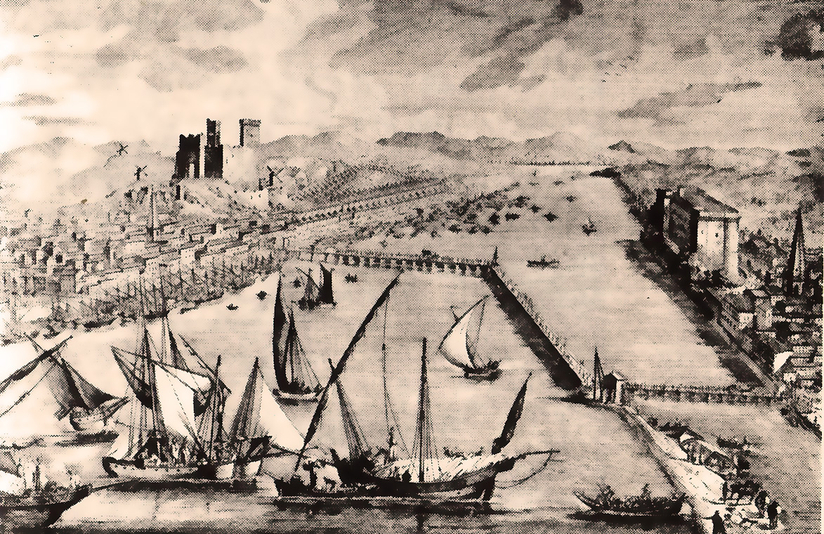 Bridge Beaucaire Tarascon XVIIIe